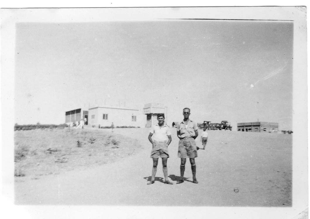 ayelet hashahar in the 30\' palestine